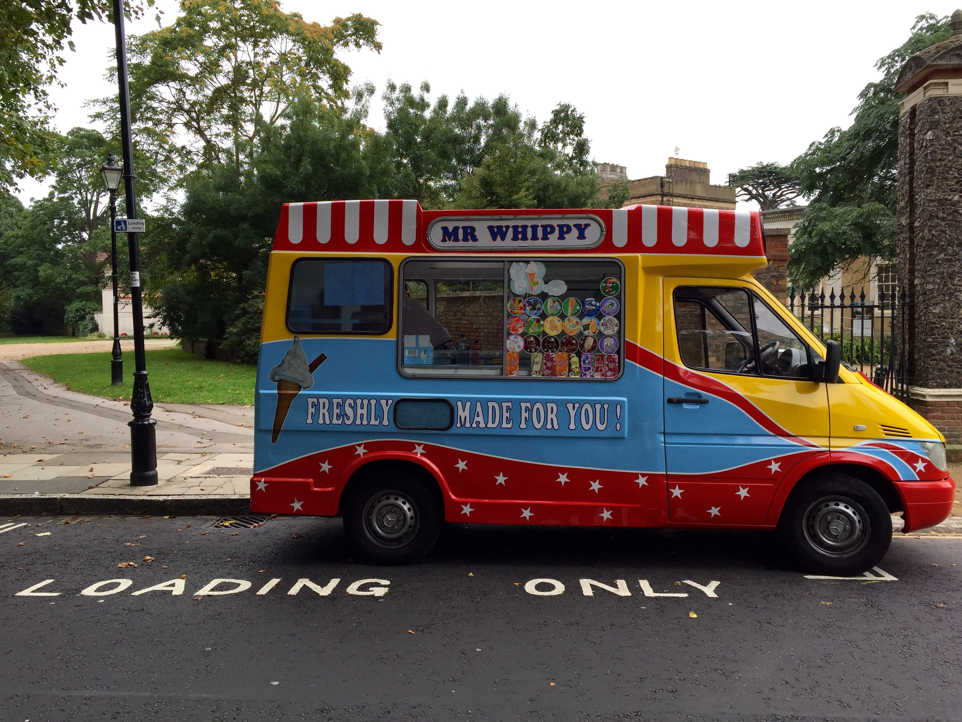 Ice cream truck in 65 degrees. On or near Ealing Broadway, London, England.